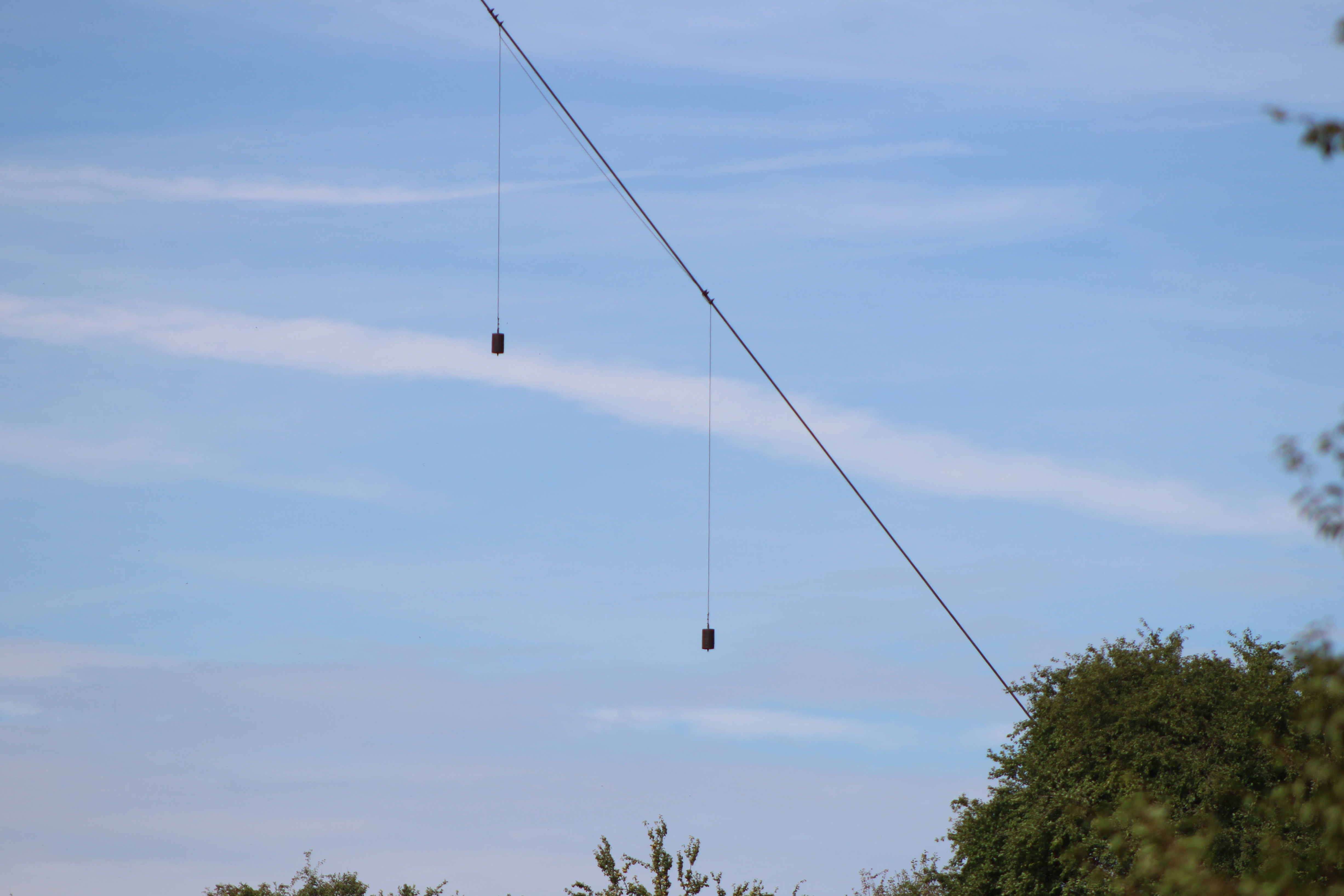 Damping system on guys of Jemiolow TV mast